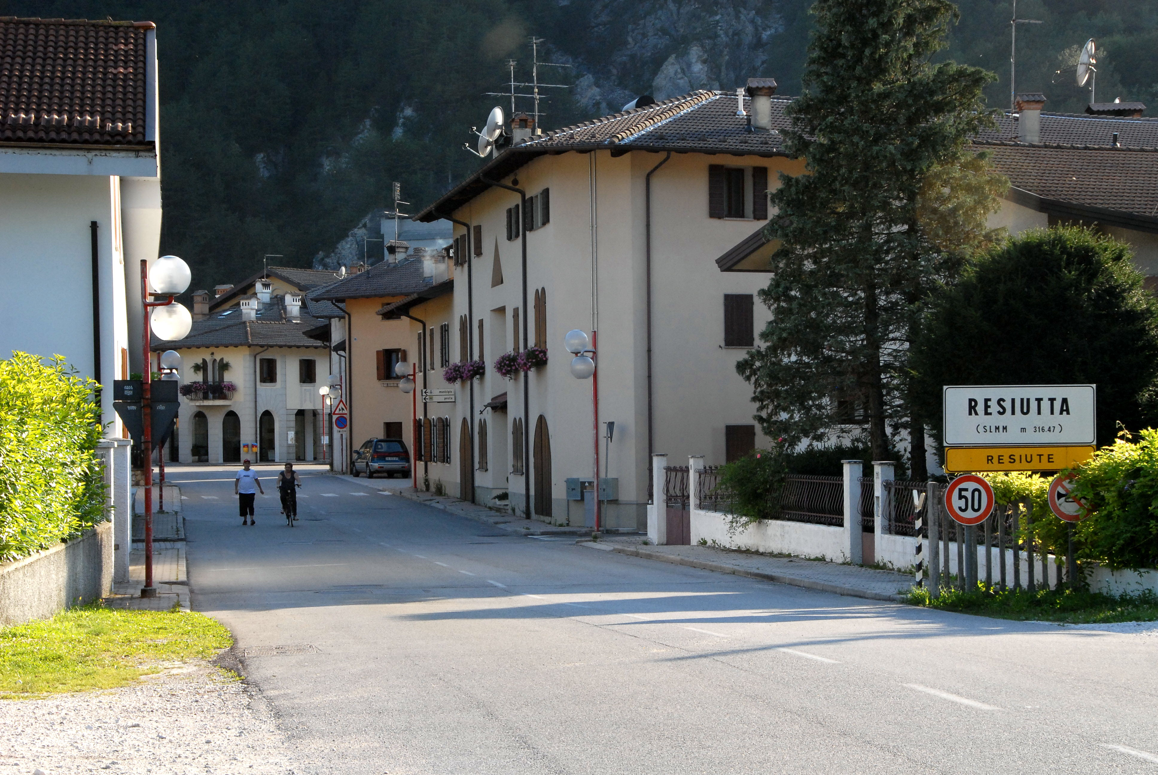 Street in Resiutta in the Fella valley / Canal del Ferro / Friuli-Venezia Giulia / Italy / EU.